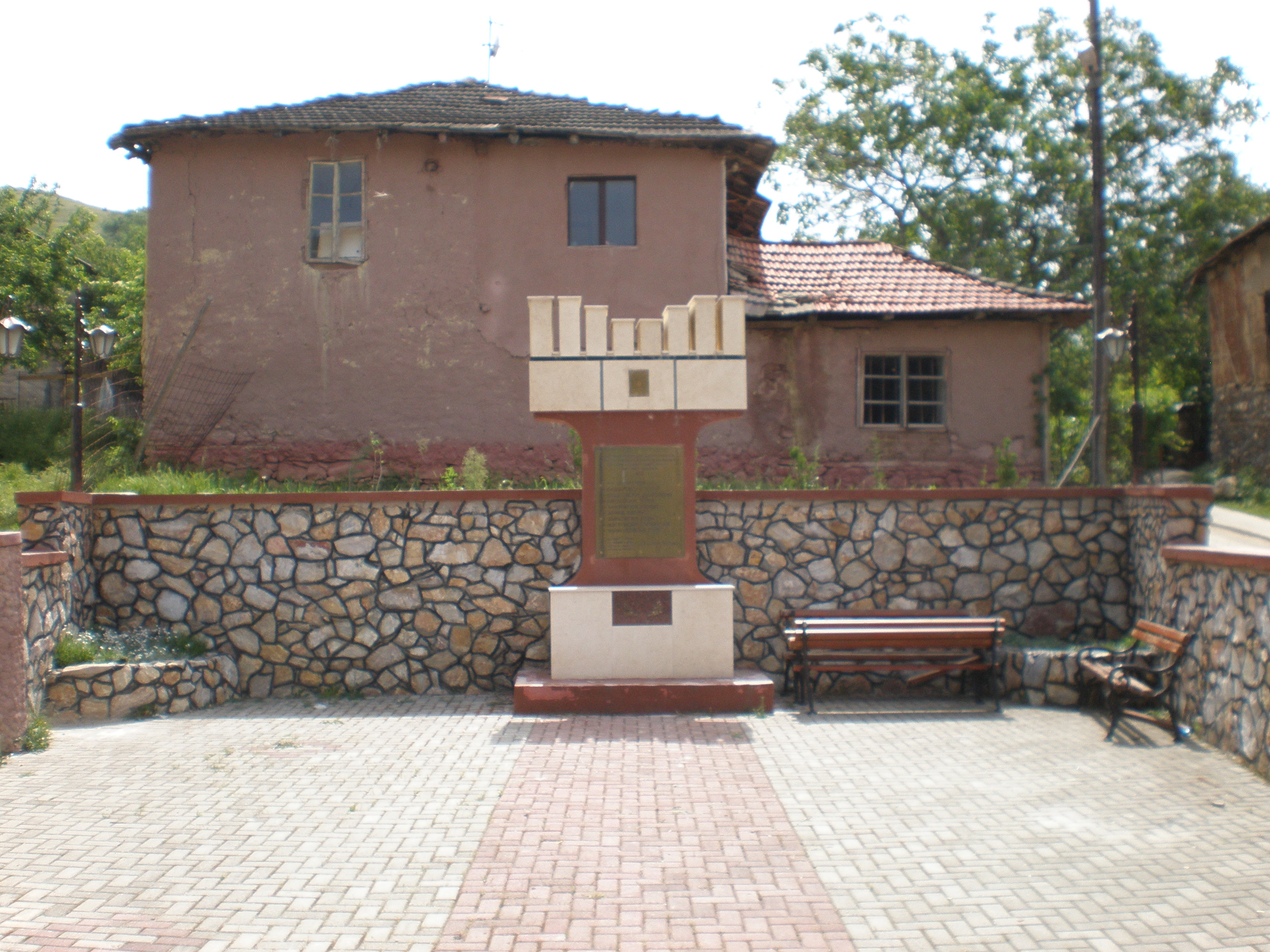 Monument of the killed Macedonian soldiers and policemen in 2001 in the village of Ljubanci, near Skopje, Macedonia